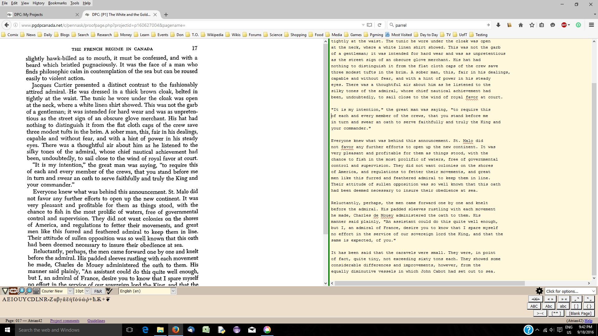 A screenshot of the proofreading software used by Distributed Proofreaders Canada.